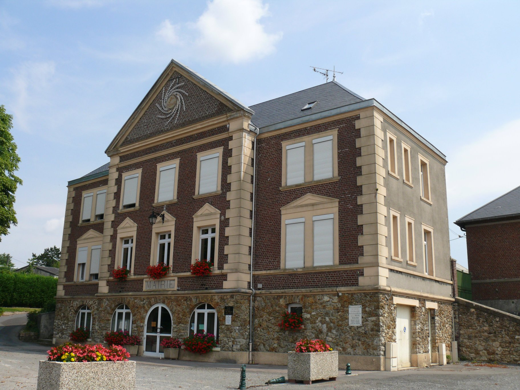 The town hall of Bellicourt (Aisne, Picardie, France).